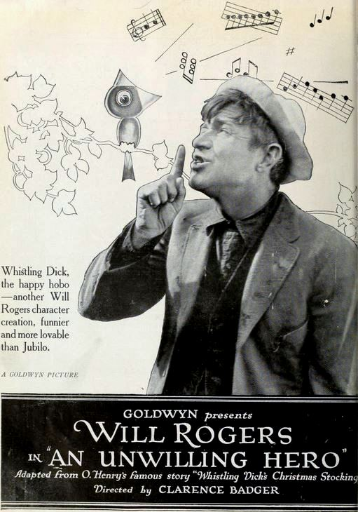 Ad for the American silent film An Unwilling Hero (1921) with Will Rogers, on the back cover of the May 8, 1921 Film Daily.